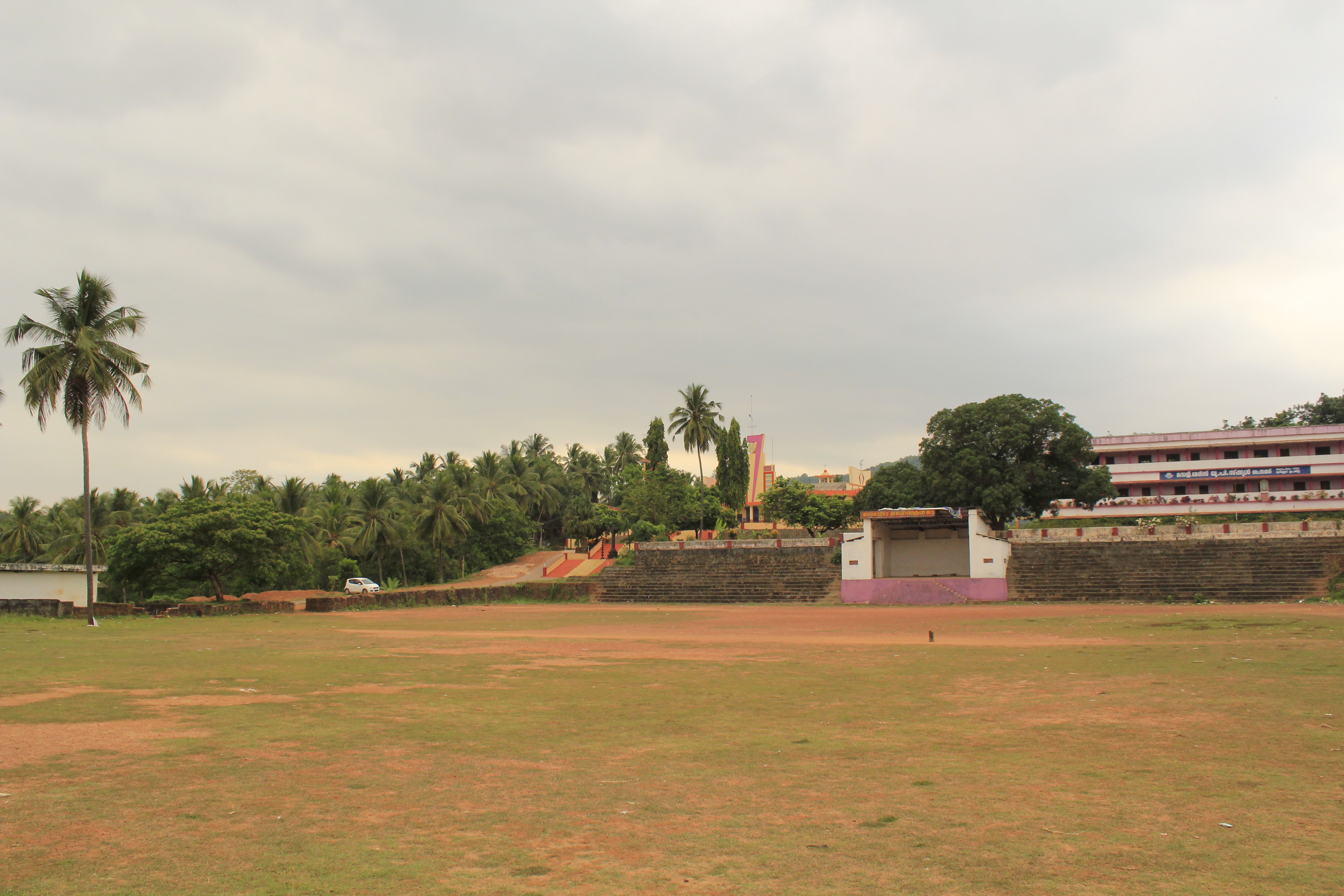 i took this photo